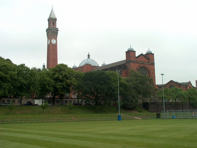 Green Playing Fields and Red Brick Birmingham U was founded in 1900 and is probably the original "Redbrick" university. The grey single-storey buildings running left to right through the lower half of the picture are "temporary" buildings which have been there at least 50 years to this contributor's knowledge.